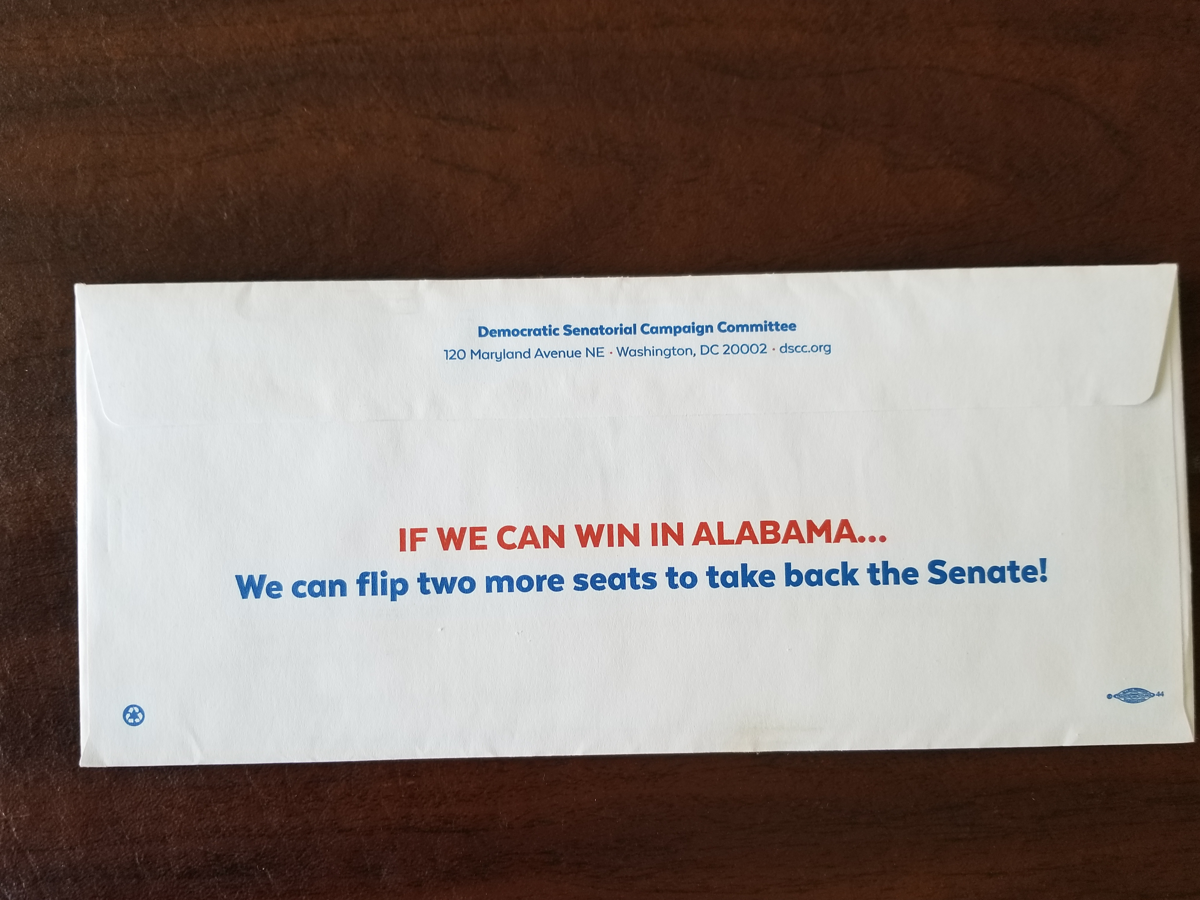 DSCC fundraising off of 2017 Alabama special election victory